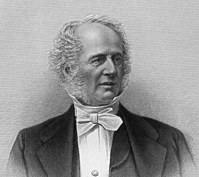 Cornelius Vanderbilt, the "railroad tycoon"